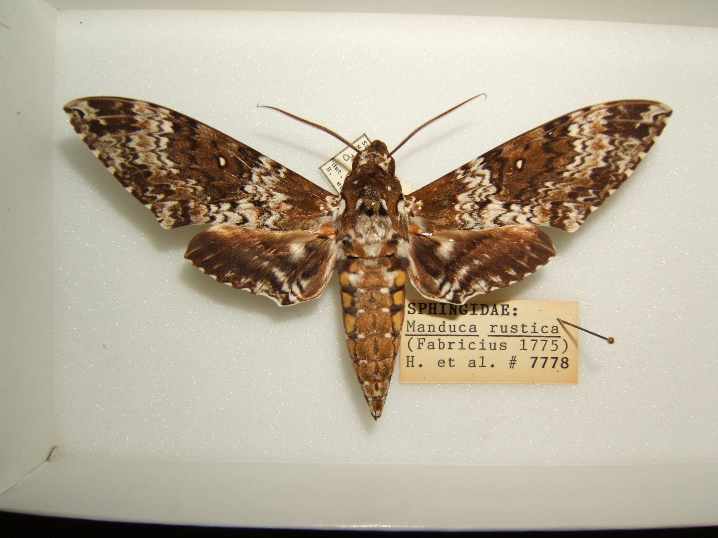 Manduca rustica adult male taken by Shawn Hanrahan at the Texas A&M University Insect Collection in College Station, Texas.